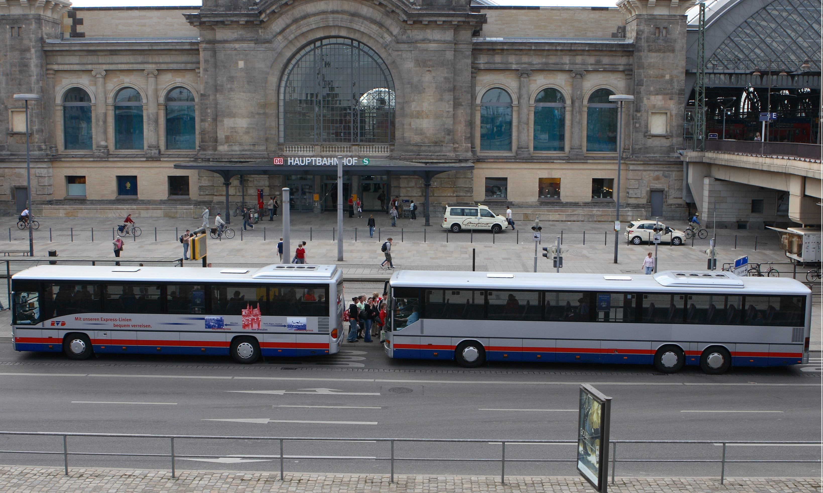 RVD Buses at Dresden Dresden Central Station (Germany)